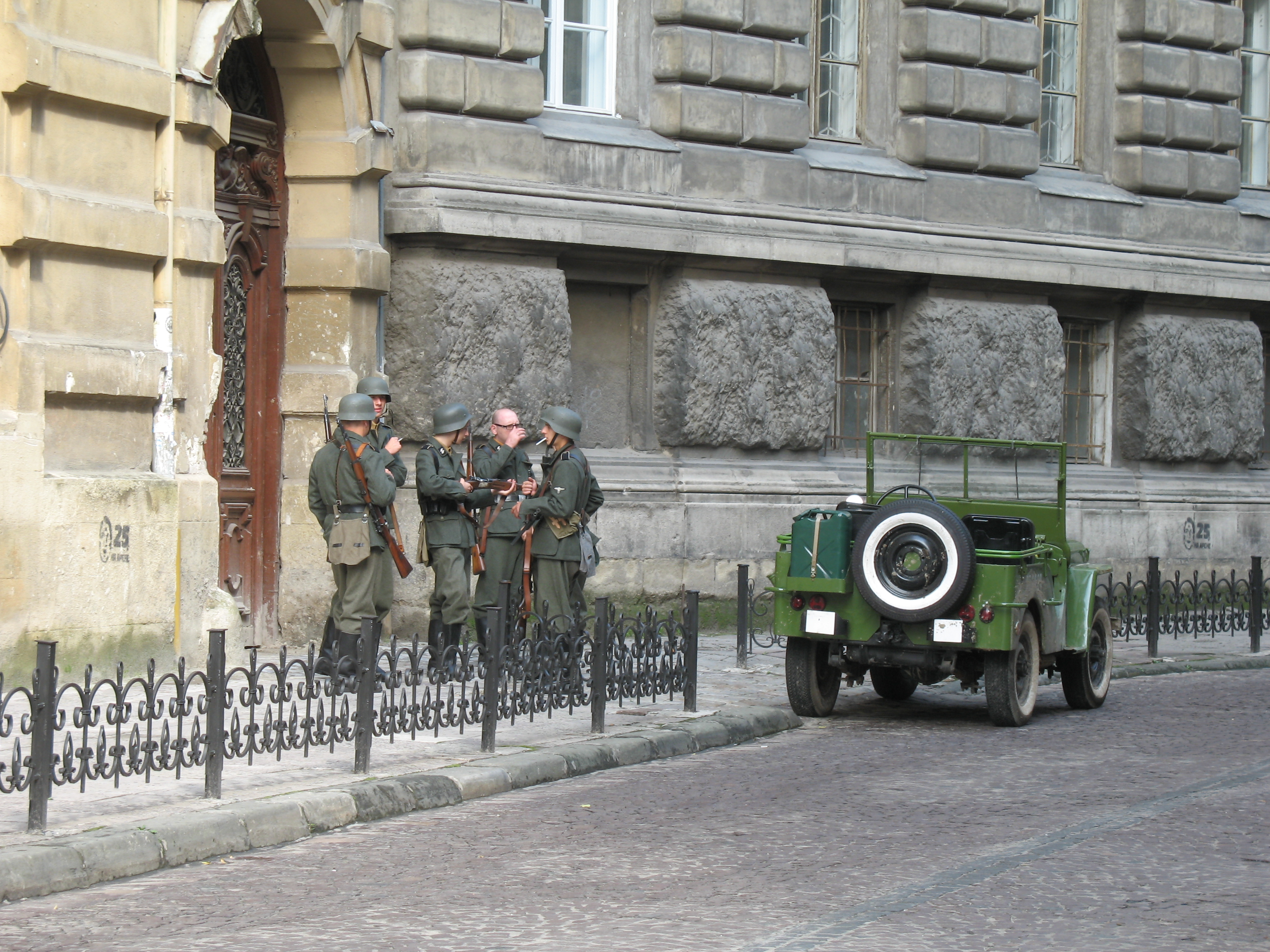 Film set of "Hitler Kaput!" movie, Str. Kosciusko, Lviv, Ukraine